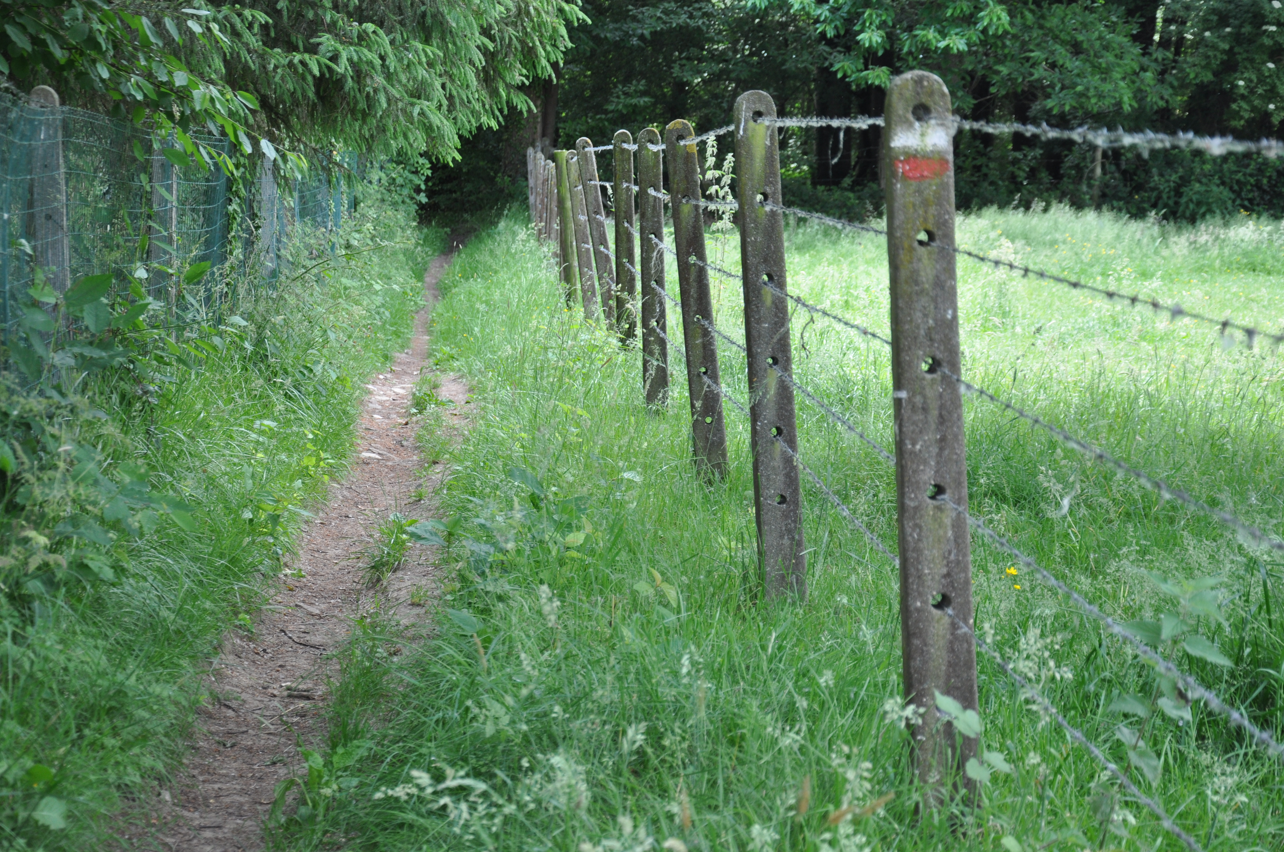 A slow road in Flanders that is a part of a GR (Grote Routepad), aka. Long distance walking trail